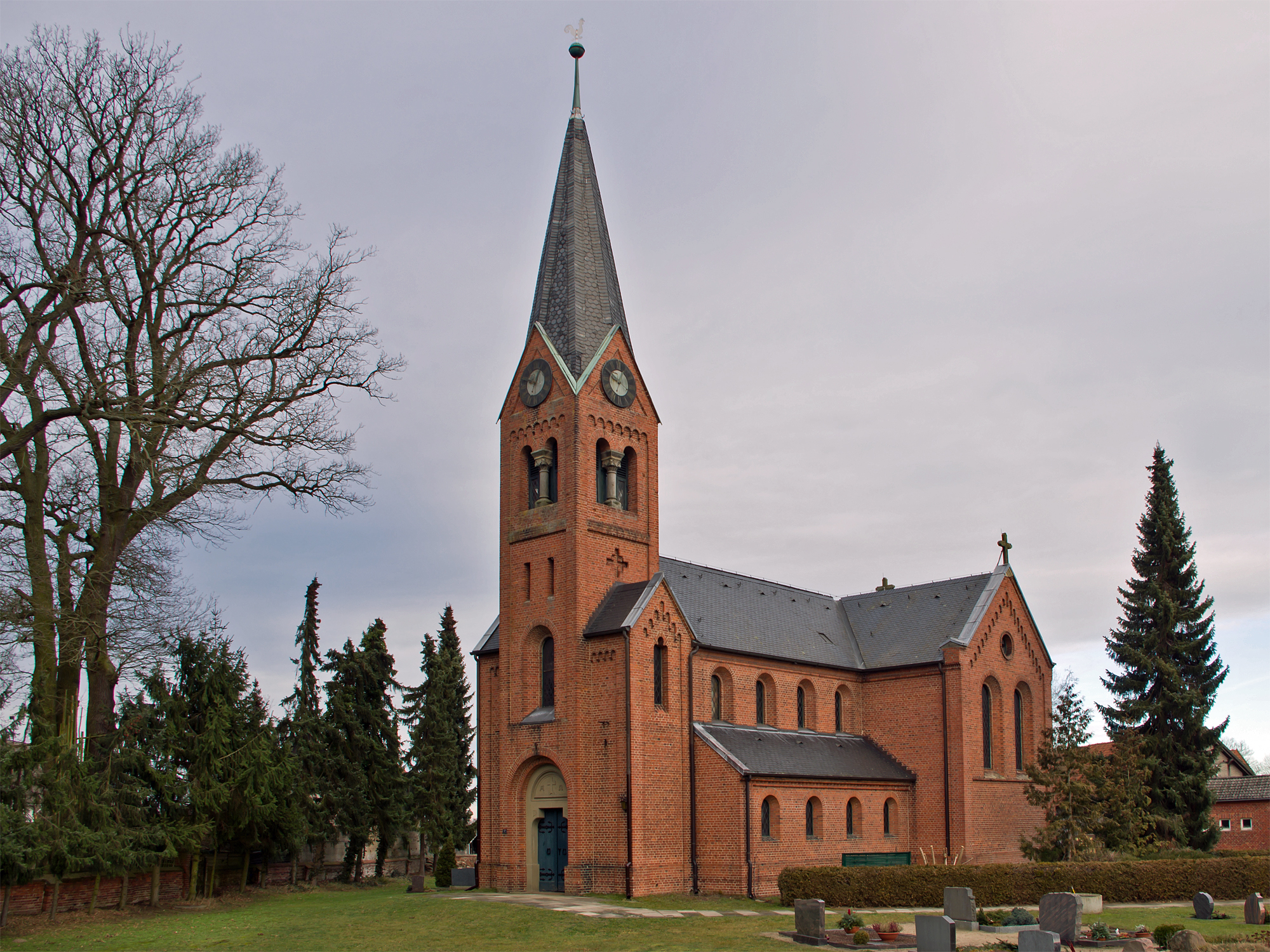 Church of the village Kapern (district Lüchow-Dannenberg, northern Germany).